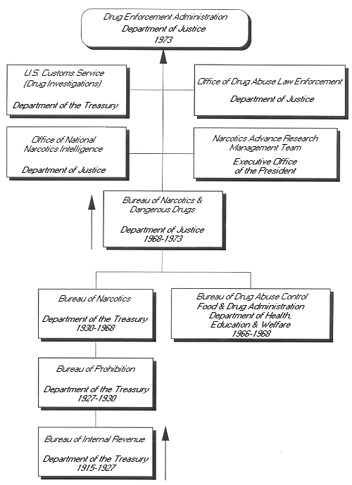 DEA genealogy from